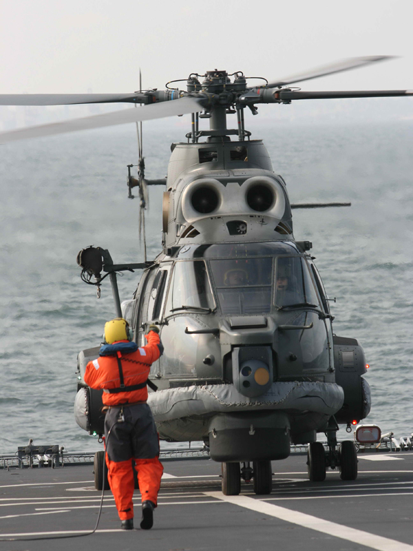 A IAR 330 Puma Naval helicopter aboard HNLMS Johan de Witt during Cooperative Lione 09 exercise.